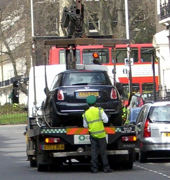 MINI being lifted on to the back of a tow truck because it was parked illegally. The scene is Southampton Place, Bloomsbury. The photo was taken from High Holborn looking towards Bloomsbury Square, by User:Edward on 25th March 2006 using a Casio EX-S600.